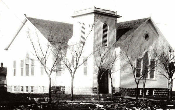 Early picture of the Stafford Reformed Presbyterian Church, a Gothic Revival church building in Stafford, Kansas, United States. Located at 113 N. Green St., it was built in 1913 by a newly-organized congregation of the Reformed Presbyterian Church of North America; this picture shows its appearance upon completion. Listed on the National Register of Historic Places since 2005, the church is today owned and operated by the Henderson House Inn and Retreat Center.